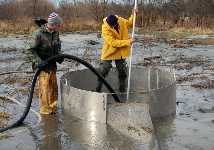 Workers extracting amber from ground with hydraulic method. Gdansk, Poland.